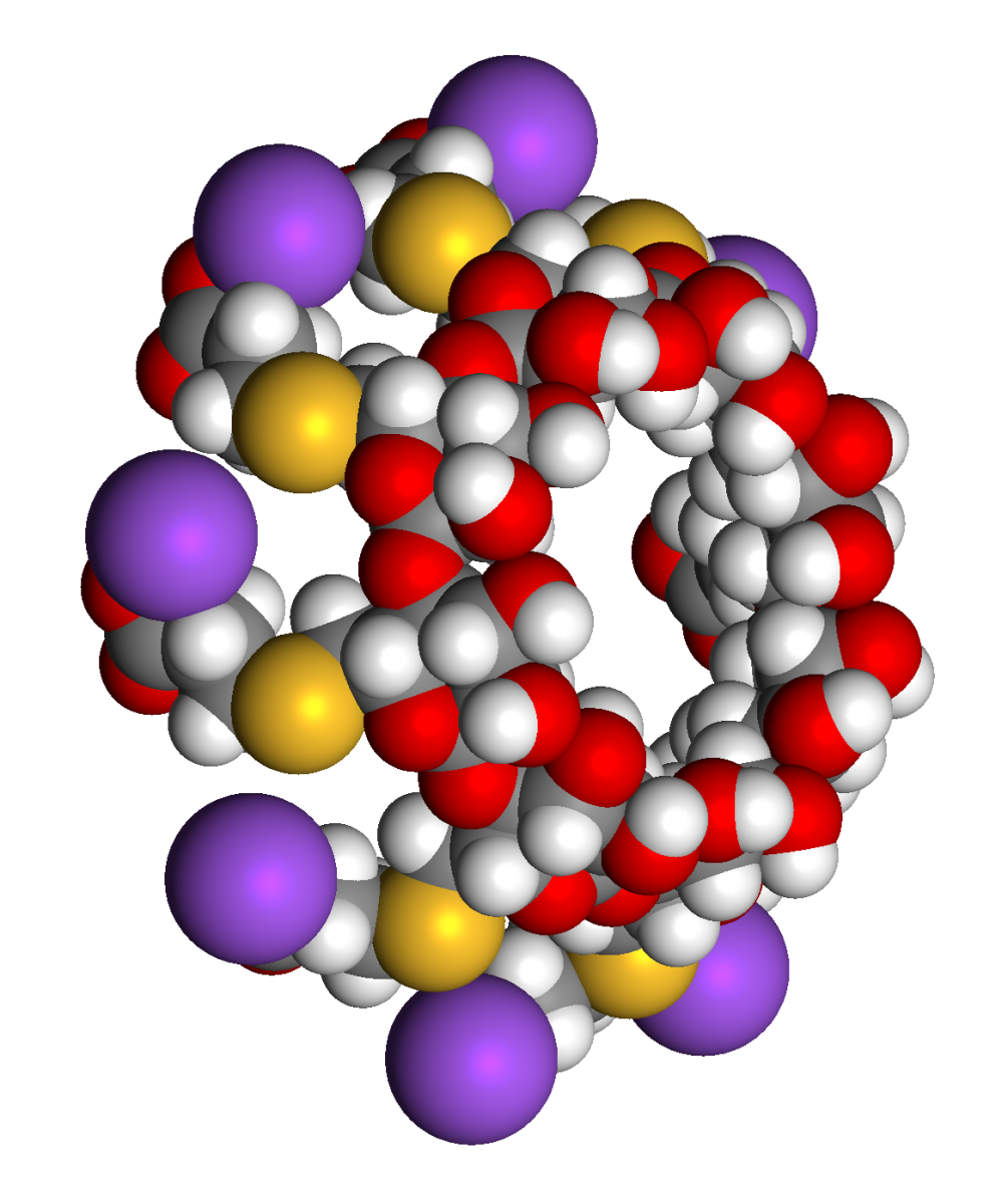 Space-filling model of sugammadex sodium, three-quarters view. Created using Accelrys DS Visualizer Pro 1.6 and GIMP.